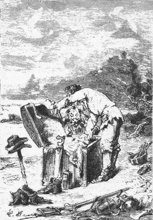 An illustration from Jules Verne's novel "Godfrey Morgan: A Californian Mystery" (also published as "Godfrey Morgan, School for Robinsons", and "School for Crusoes", 1882) drawn by Léon Benett.